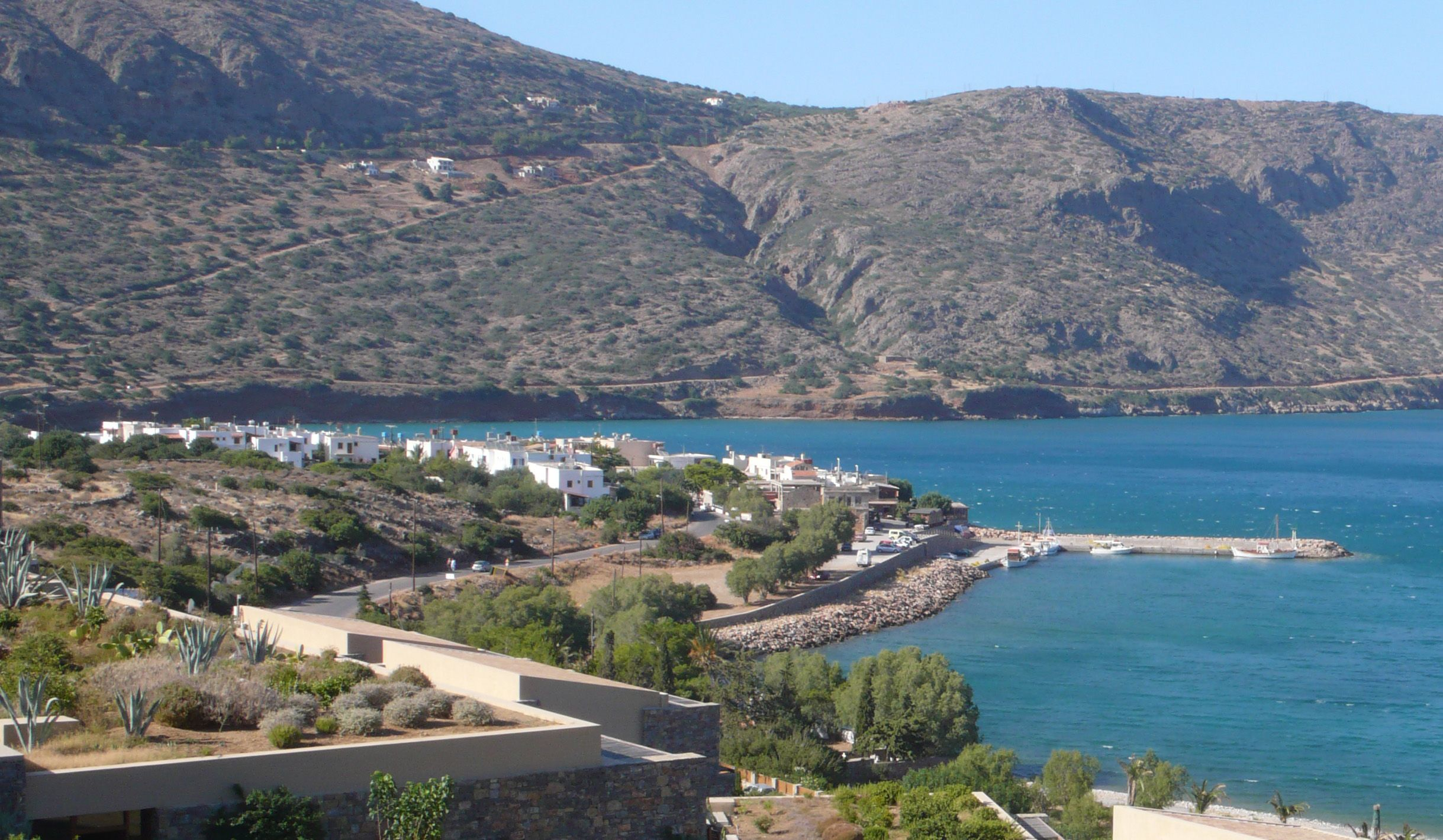 Plaka, Lassithi, Crete